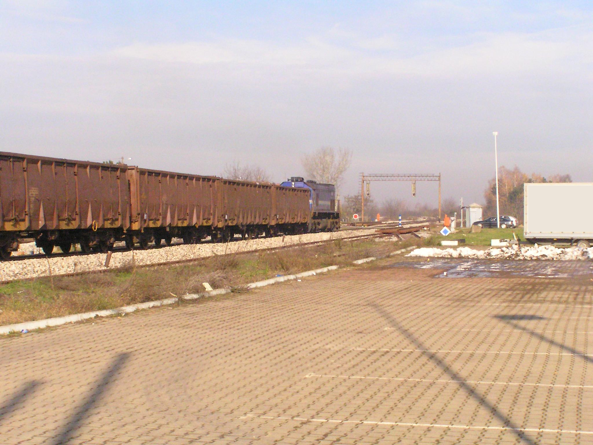 Freight train in Croatia, leaving from Vinkovci towards Vukovar